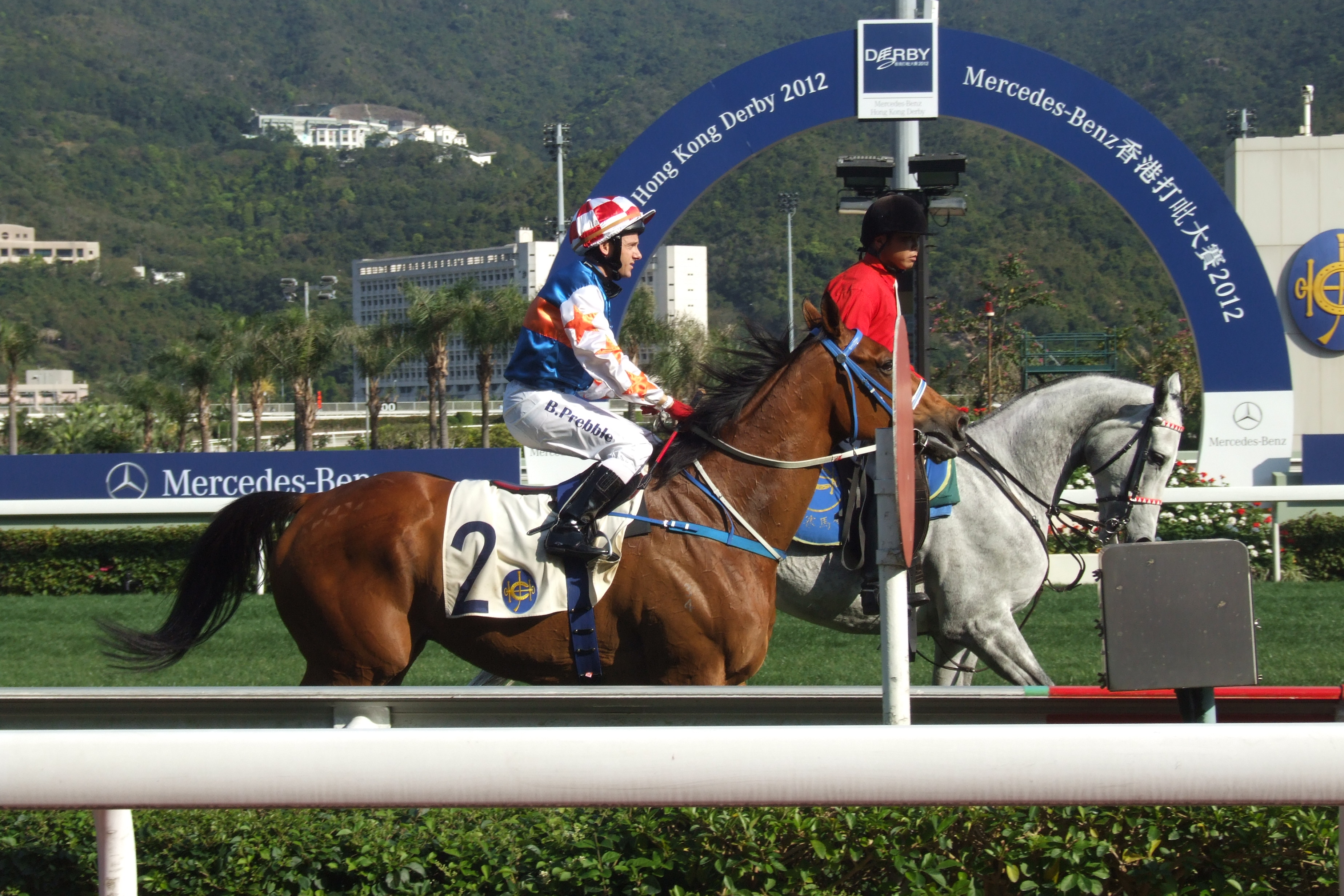 Thumbs Up at 2012-3-18